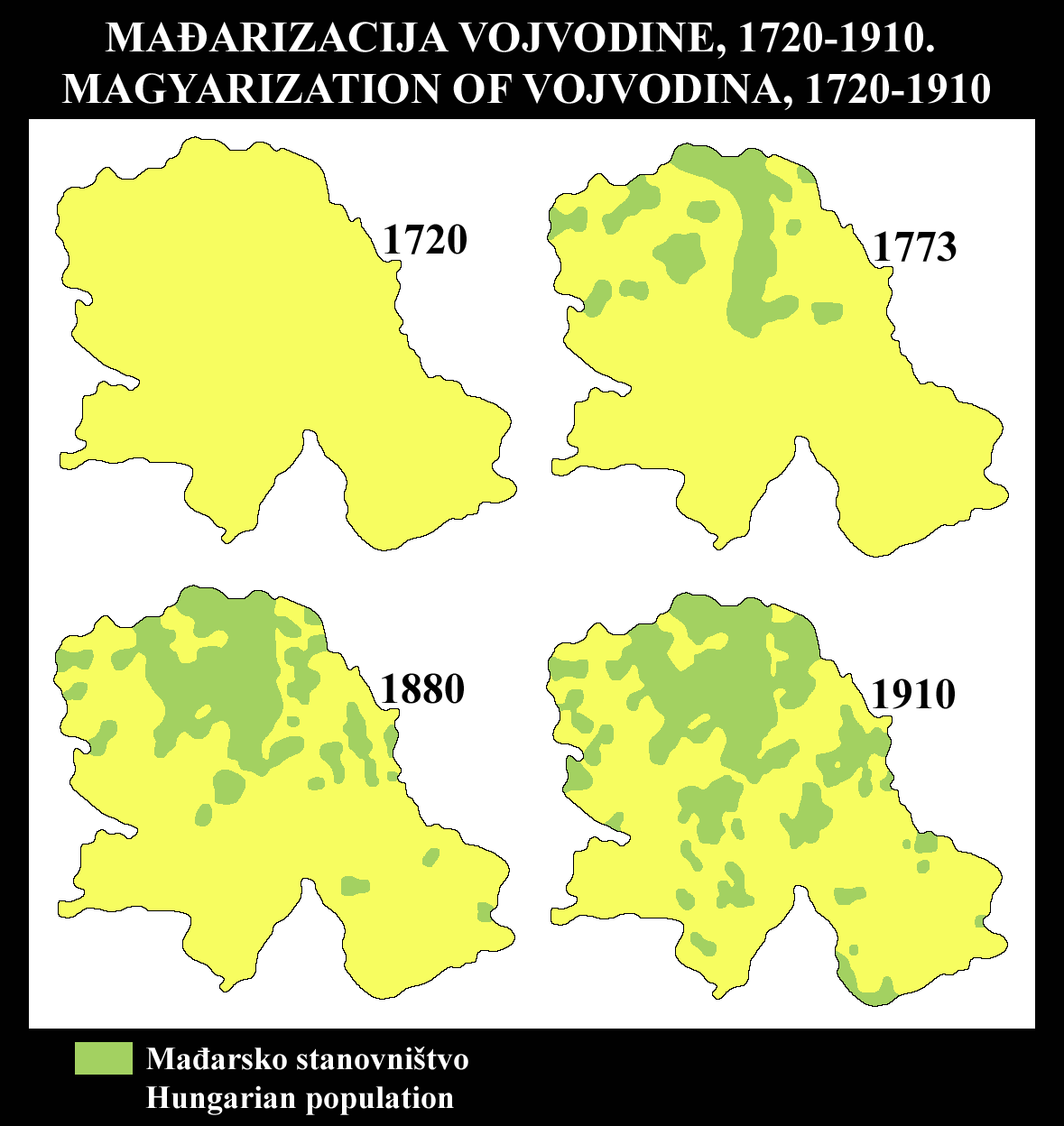 Mađarizacija Vojvodine, 1720-1910. Korišćeni podaci iz ovih izvora: [1] (Ethnic Geography of the Hungarian Minorities in the Carpathian Basin; Károly Kocsis, Eszter Kocsisné Hodosi; Simon Publications LLC, 1998; Page 139), [2] Magyarization of Vojvodina, 1720-1910. I used data from these sources: [3] (Ethnic Geography of the Hungarian Minorities in the Carpathian Basin; Károly Kocsis, Eszter Kocsisné Hodosi; Simon Publications LLC, 1998; Page 139), [4]